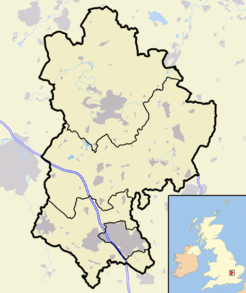 A map of the county of Bedfordshire, England, United Kingdom, showing the 1974-2009 district boundaries.